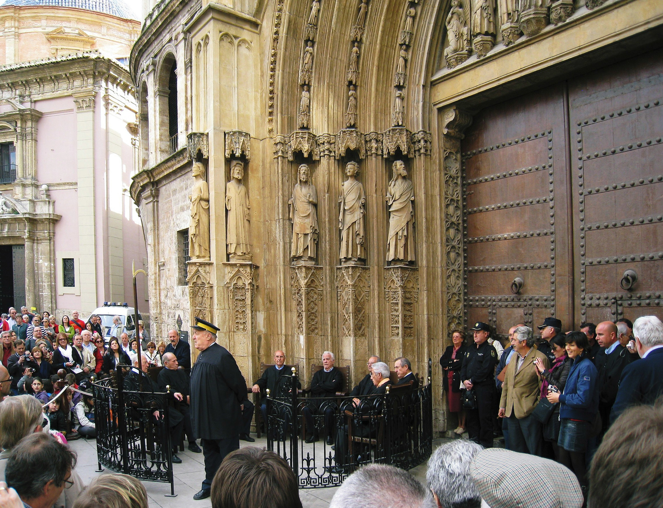 A sitting of the Water Court in Valentia, outside the Apostles Gate of the Cathederal. The origins of the court, which sits every Thursday, in unknown: some authorities claim that it dates to Roman times while others date it to 960 AD.